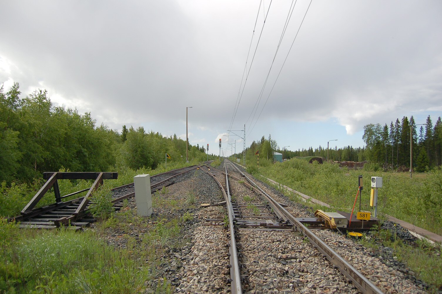 Lautiosaari is a control point (CP, controlled location) between Kemi and Laurila stations. It is also a junction, where Elijärvi mine branch splits from the Tornio–Kemi main line.